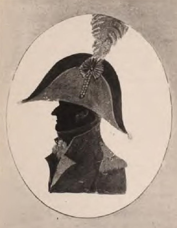 General Sir Brent Spencer (1760 – 29 December 1828), British army officer. Only known portrait, in the possession of the family.